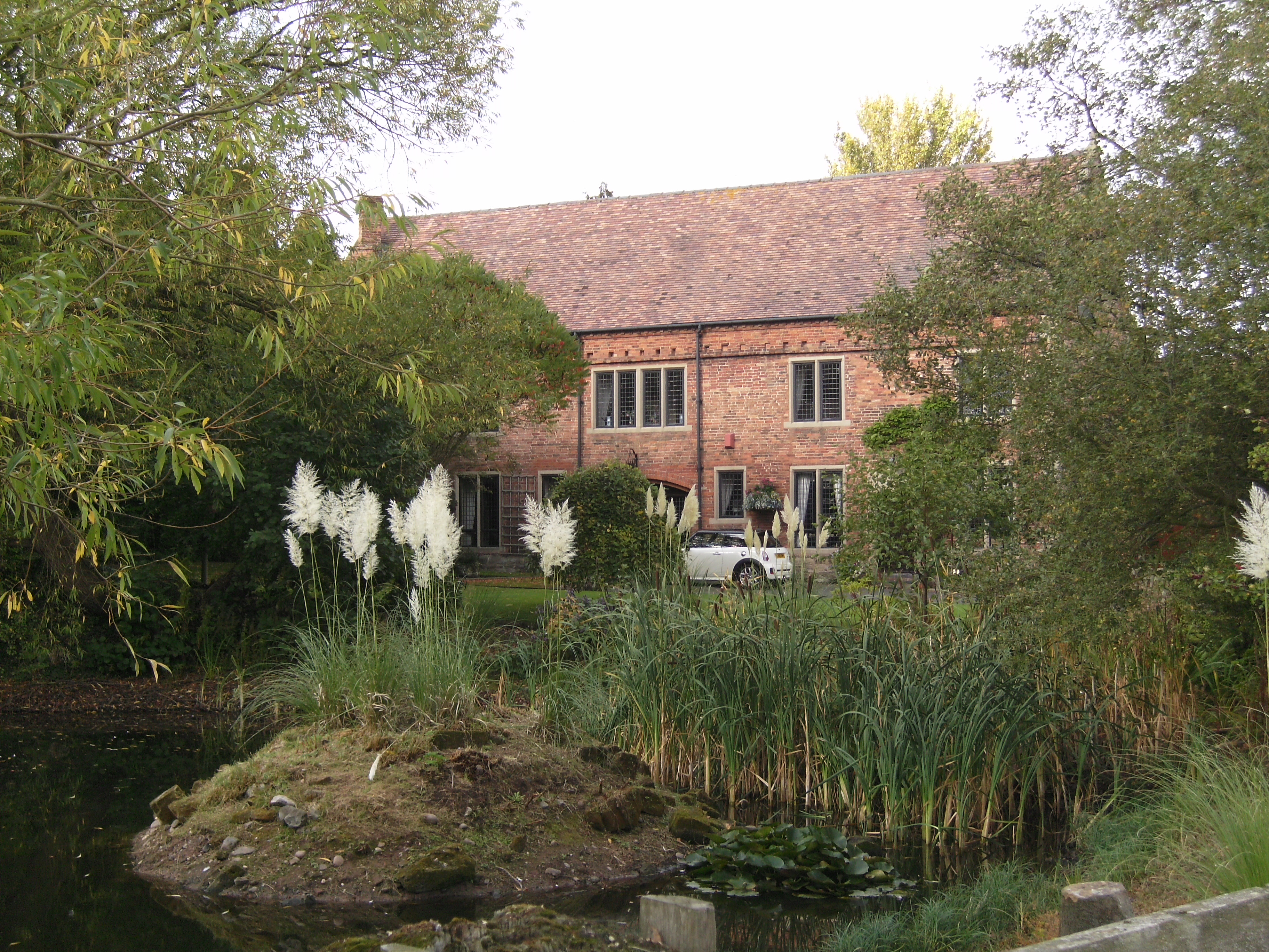 Tudor Barn, a house 4km west of Brewood, Staffordshire. Originally the stable block for Black Ladies. 17th century construction, on the site of of a former Benedictine priory. Viewed from eastern side